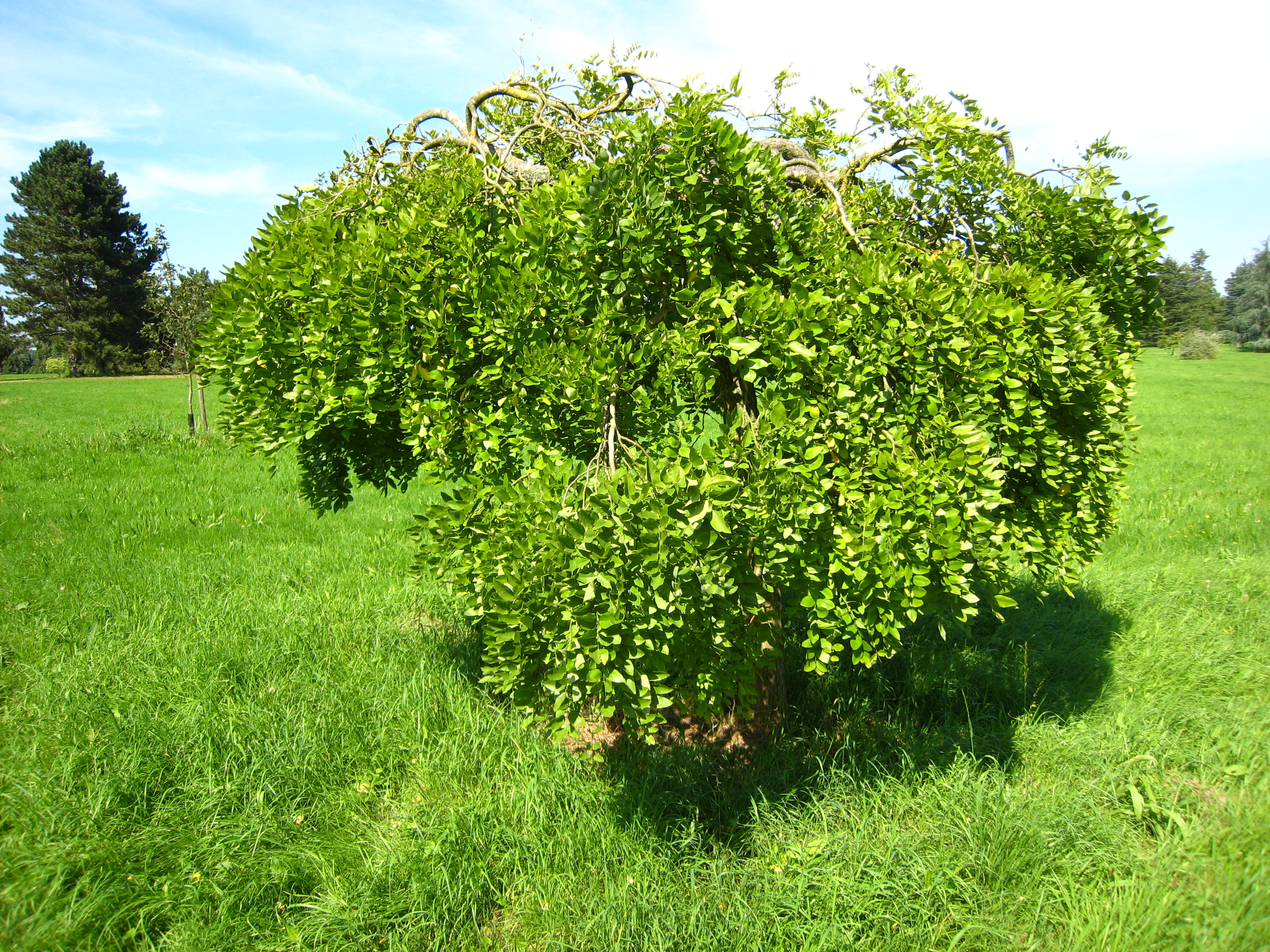 Sophora japonica 'pendula' in the Arboretum de Chèvreloup in Rocquencourt